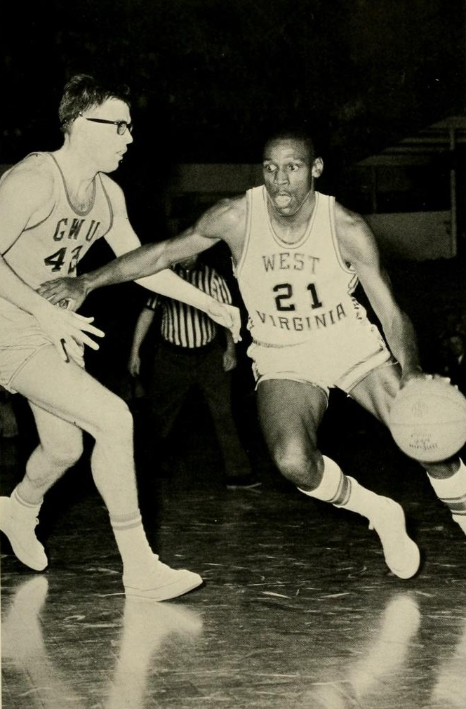 Photograph of West Virginia Mountaineers basketball player Rod Thorn